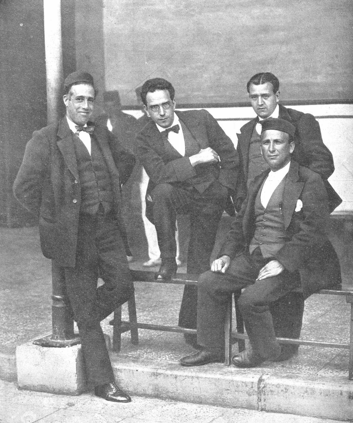 Photography of the Spanish trade unionists Julián Besteiro, Daniel Anguiano, Andrés Saborit and Francisco Largo Caballero in 1918, on the day of his release from the penitentiary of Cartagena (current Seamanship Instruction Barracks). The four had been convicted by a court-martial to life imprisonment on September 29, 1917 for the crime of sedition, because of its call for a general strike in August of the same year. On May 8 of the following year they received a amnesty from the government, after having managed to be elected deputies for the Lefts Alliance in the general elections of February 1918.